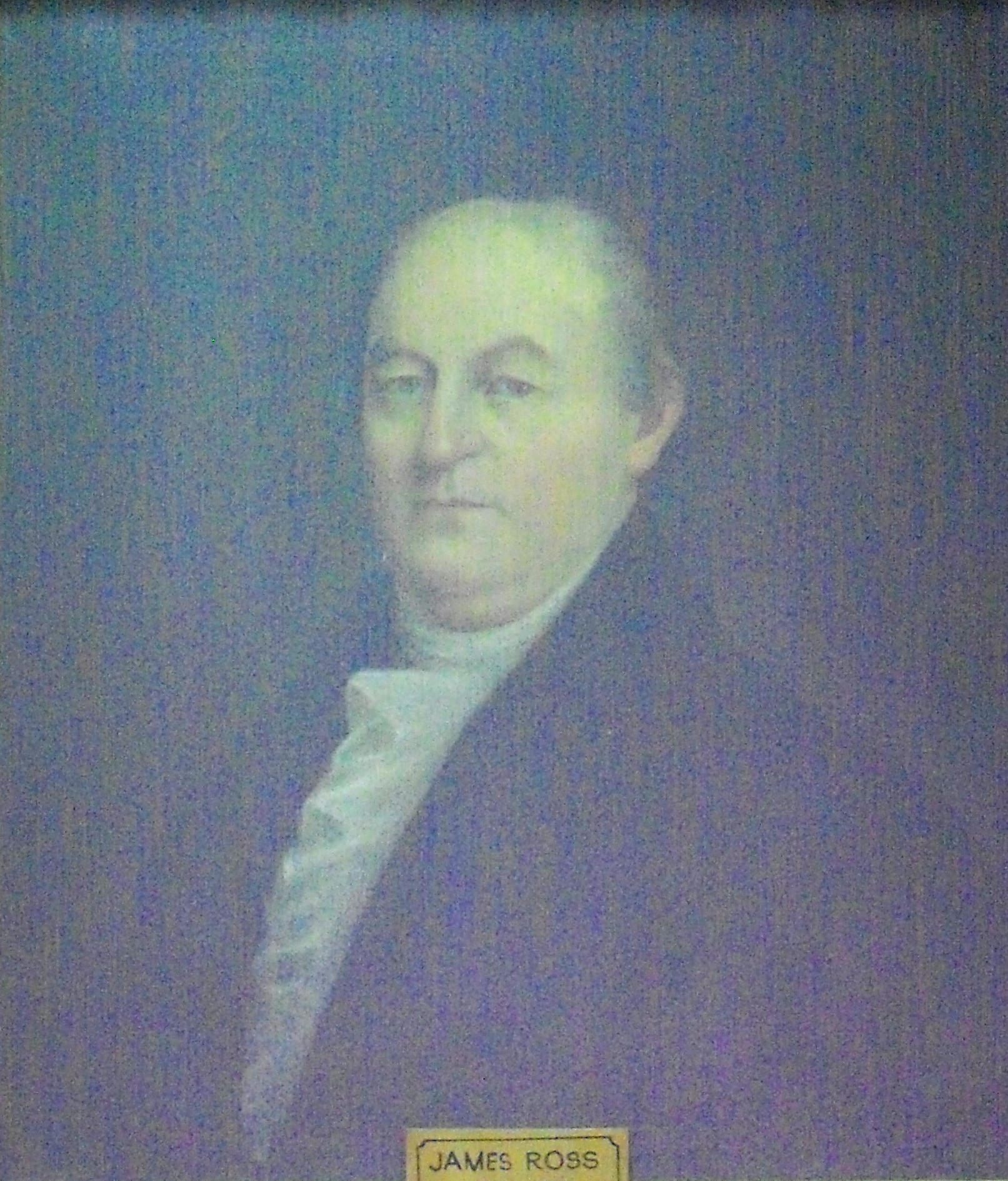 James Ross hangs at Carnegie Library of Steubenville, Steubenville, Ohio. Exposure of photo adjusted digitally.